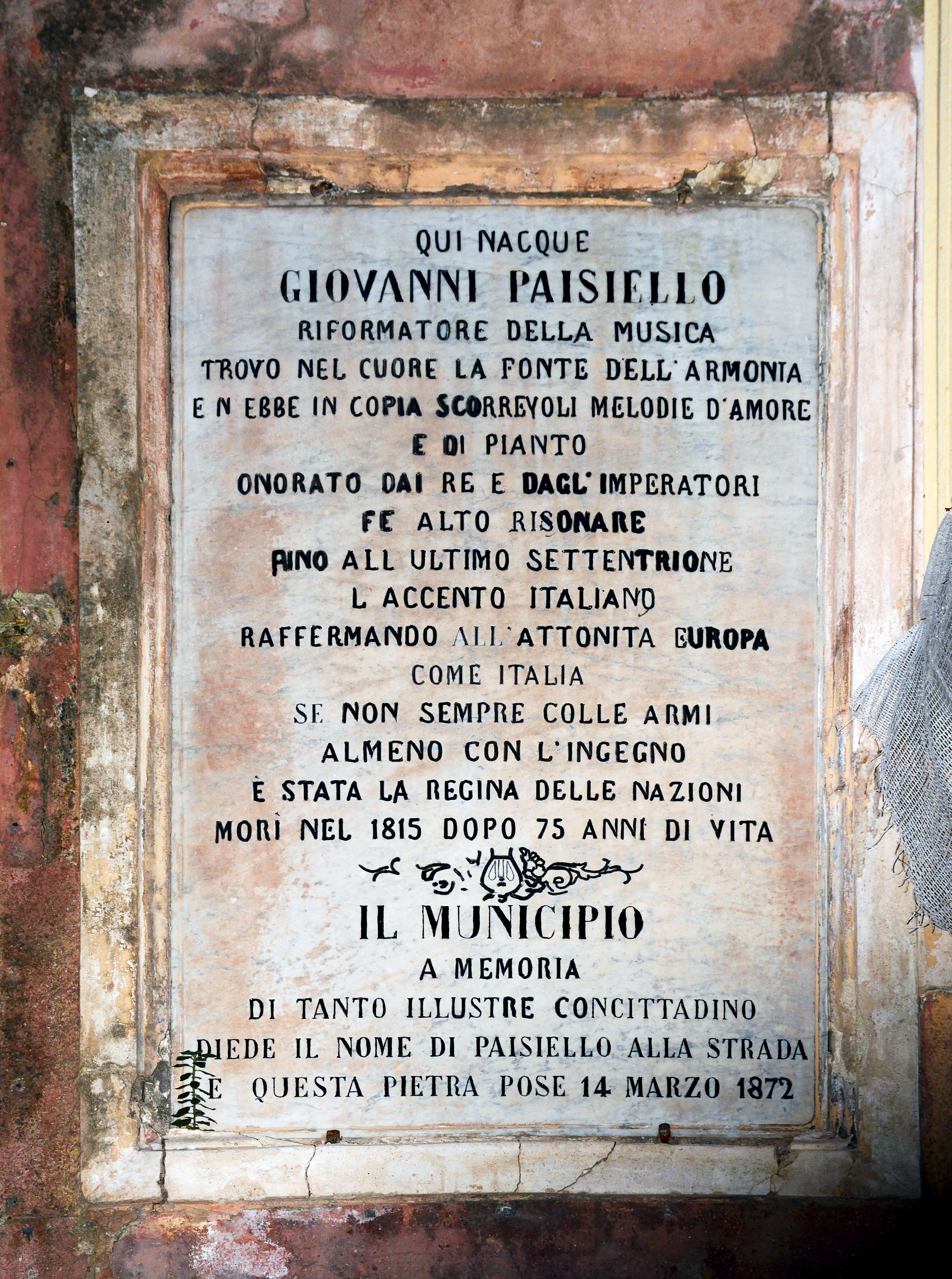 Plate on Giovanni Paisiello's home in Taranto